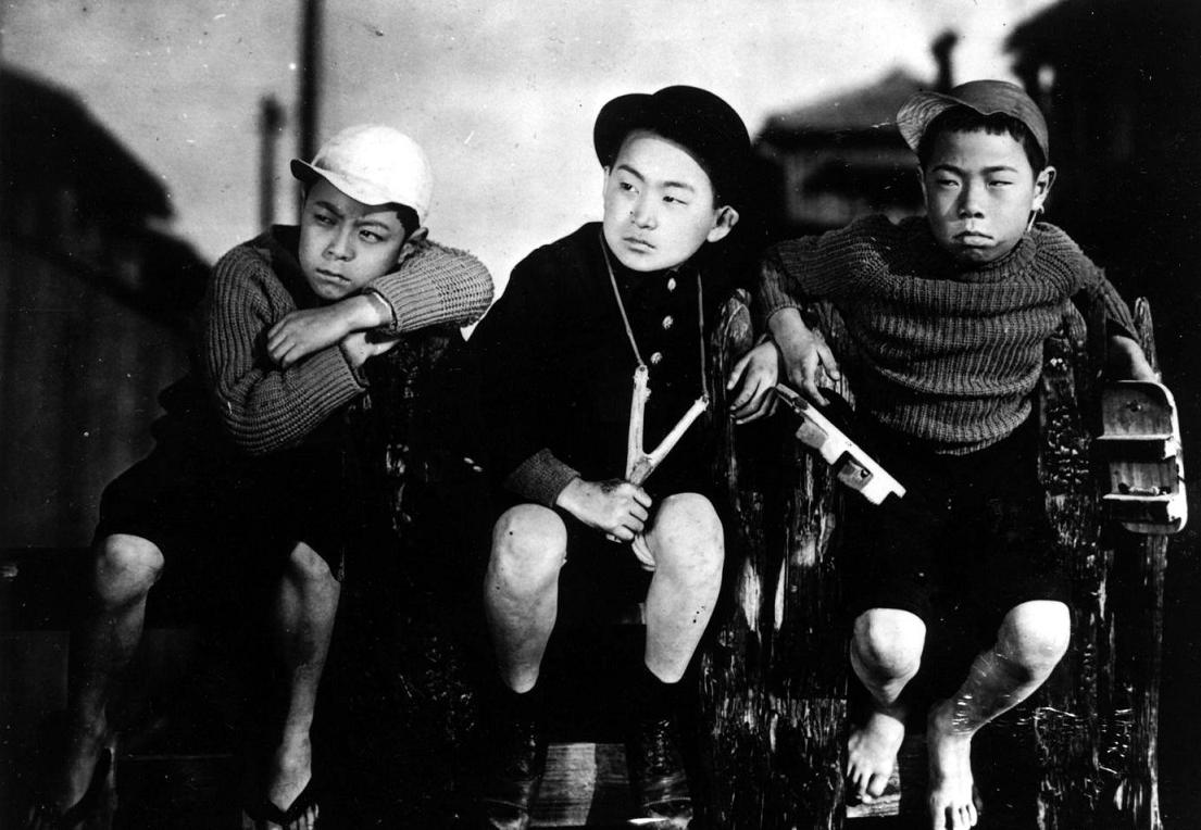 Hideo Sugawara, Seiichi Kato, Tomio Aoki (from left) from the 1932 film I Was Born, But... directed by Yasujiro Ozu